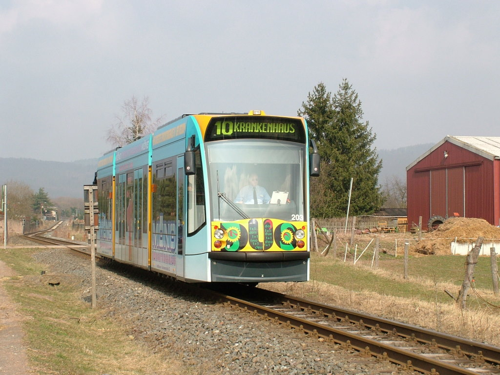 Tram Nordhausen, Germany: "Combino Duo" 203 near Niedersachswerfen on the tracks of the Harzquerbahn, 2005-03-23